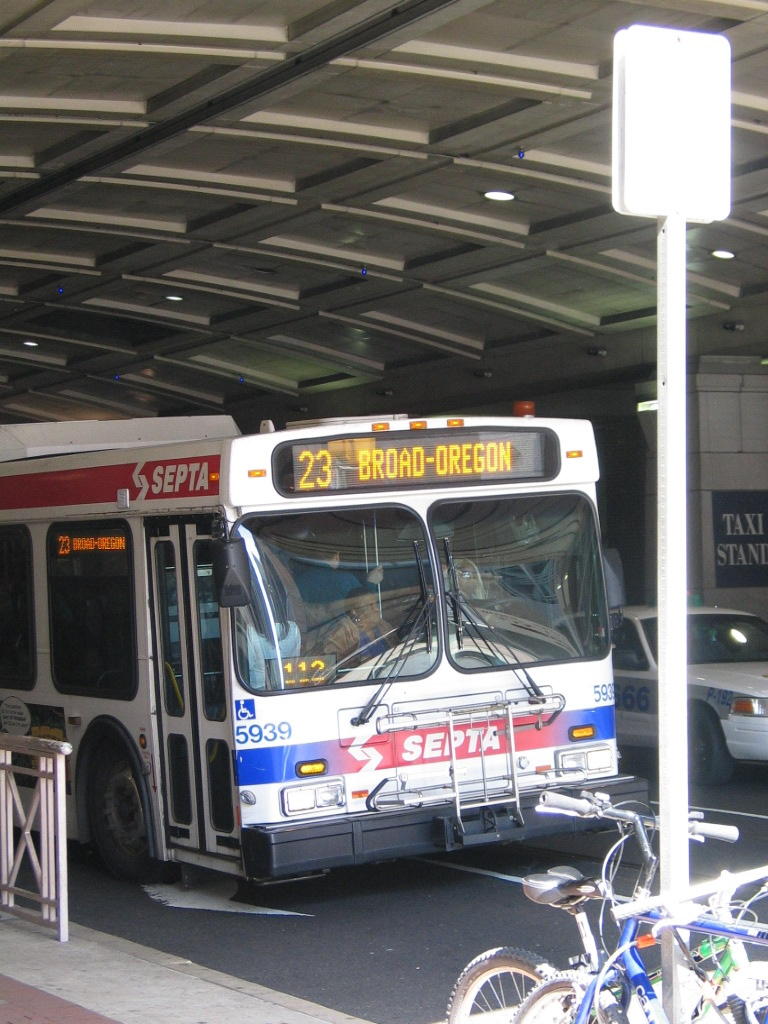 The New Flyer D60LF of route 23 is getting under the arcade of the Convention Center.